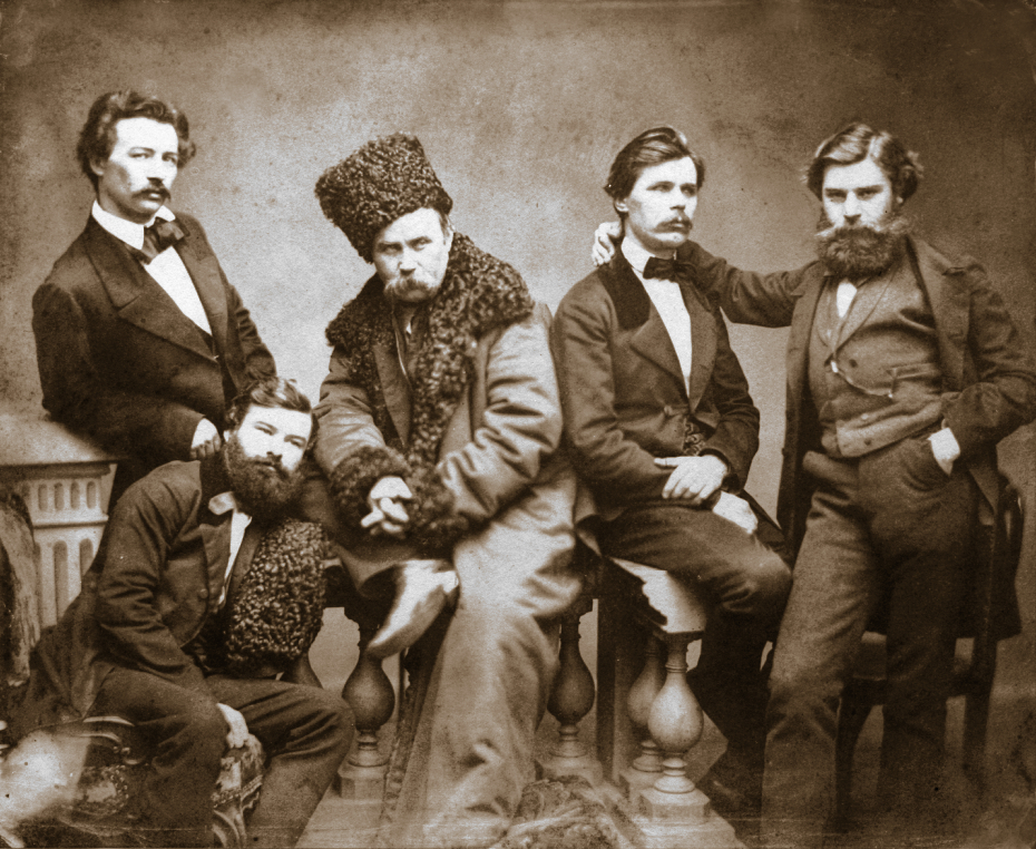 Ukrainian poet and writer Taras Shevchenko among friends. Photo 1859, St Petersburg. Left to right: O. M. Lazarevsky (?), M. M. Lazarevsky, T. H. Shevchenko, G. M. Chestahivskyy, P. I. Yakushkin.